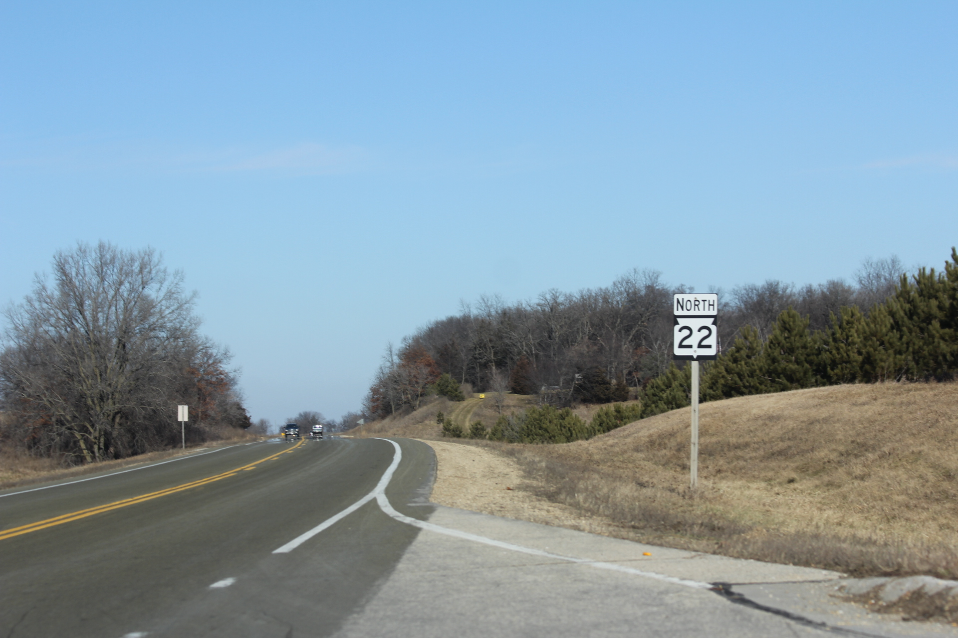 Wisconsin Highway 22 looking north from County EE.